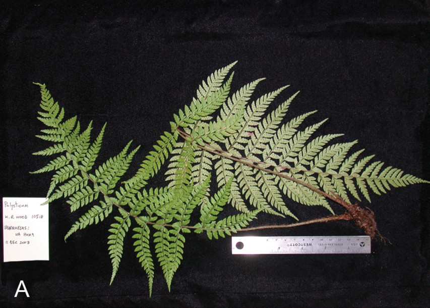 Polystichum uahukaense, frond (Ua Huka, Wood 10518)